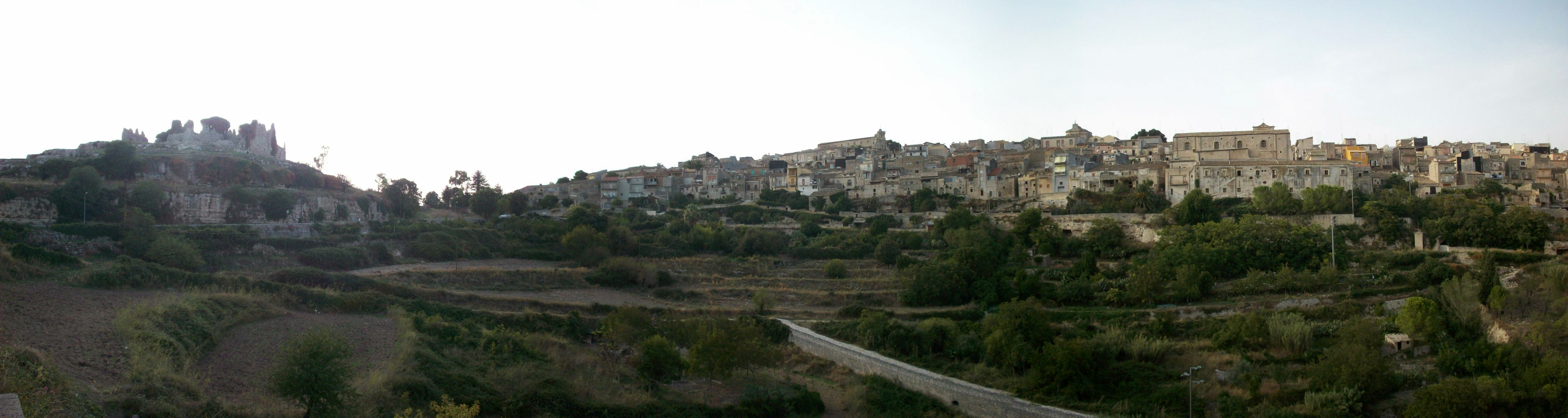 Buscemi portrait with ruins of the castle Requisenz